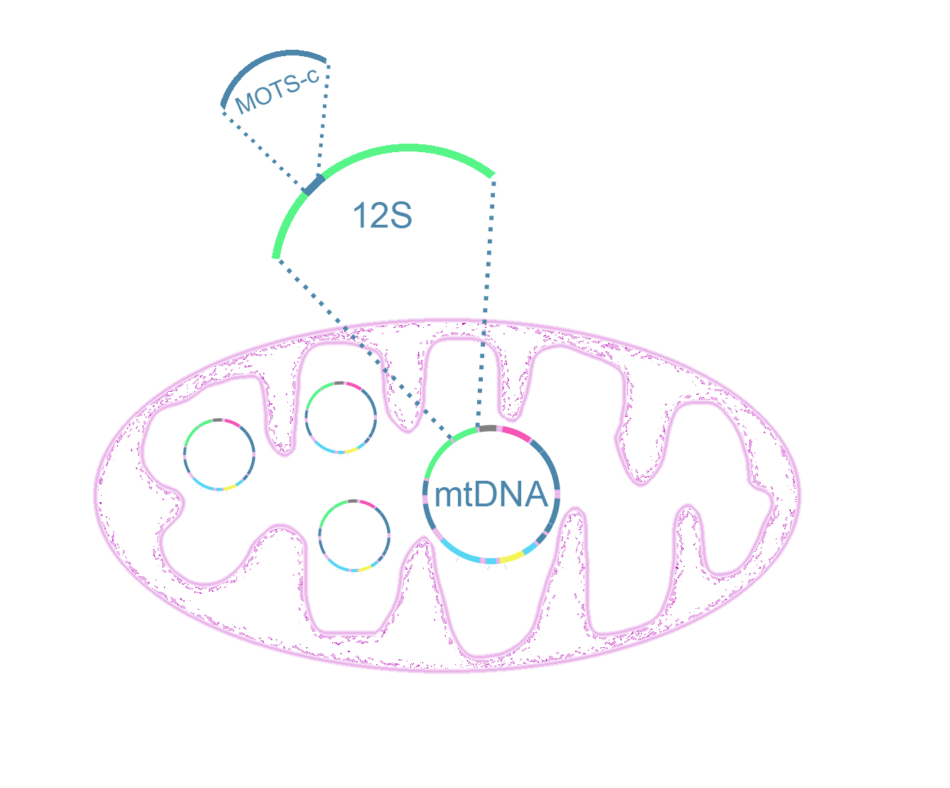 MOTS-c in the 12S rRNA region